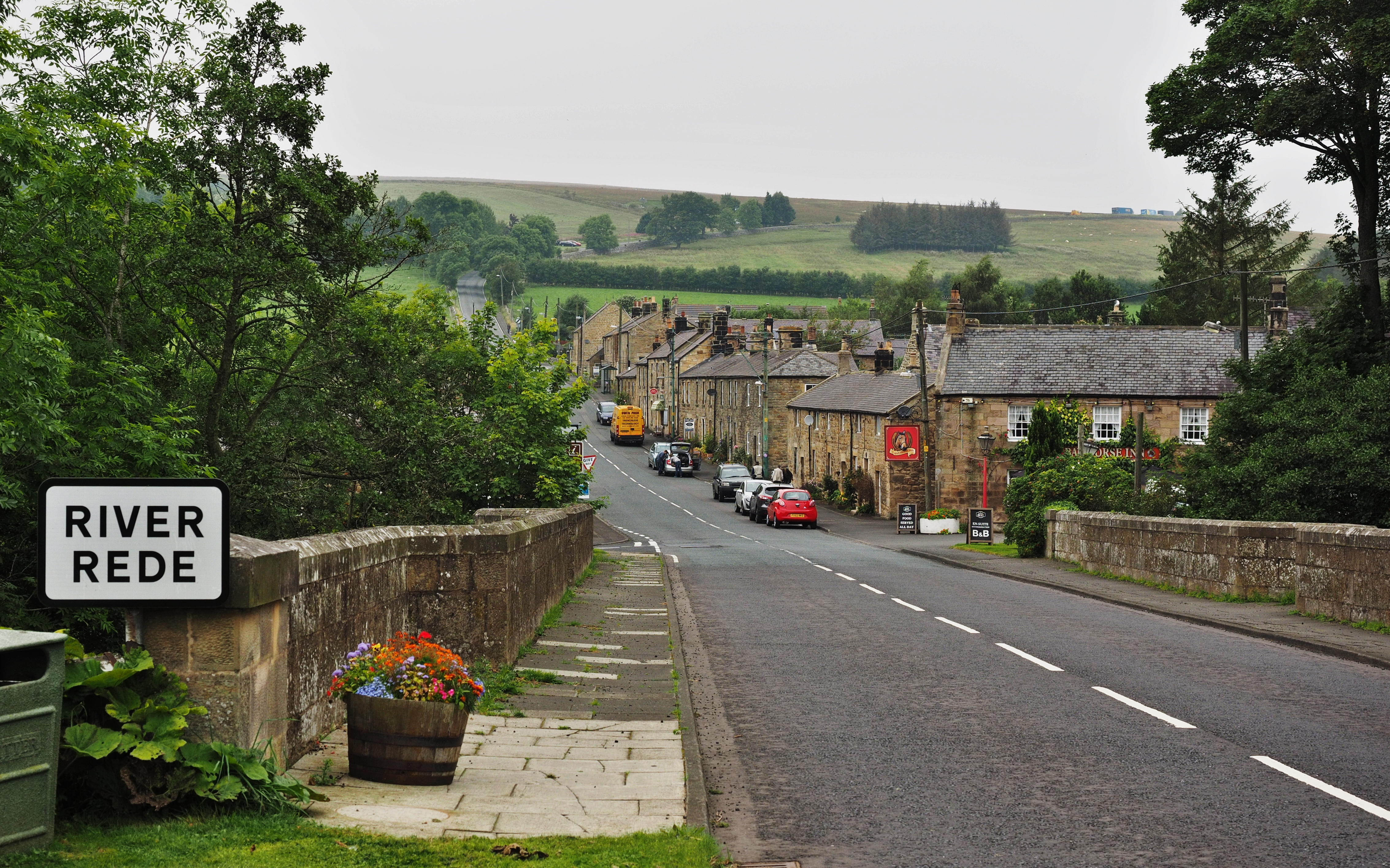 The A68 through West Woodburn, Northumberland, seen from the south, on the day of the Adam Telfer Memorial unveiling